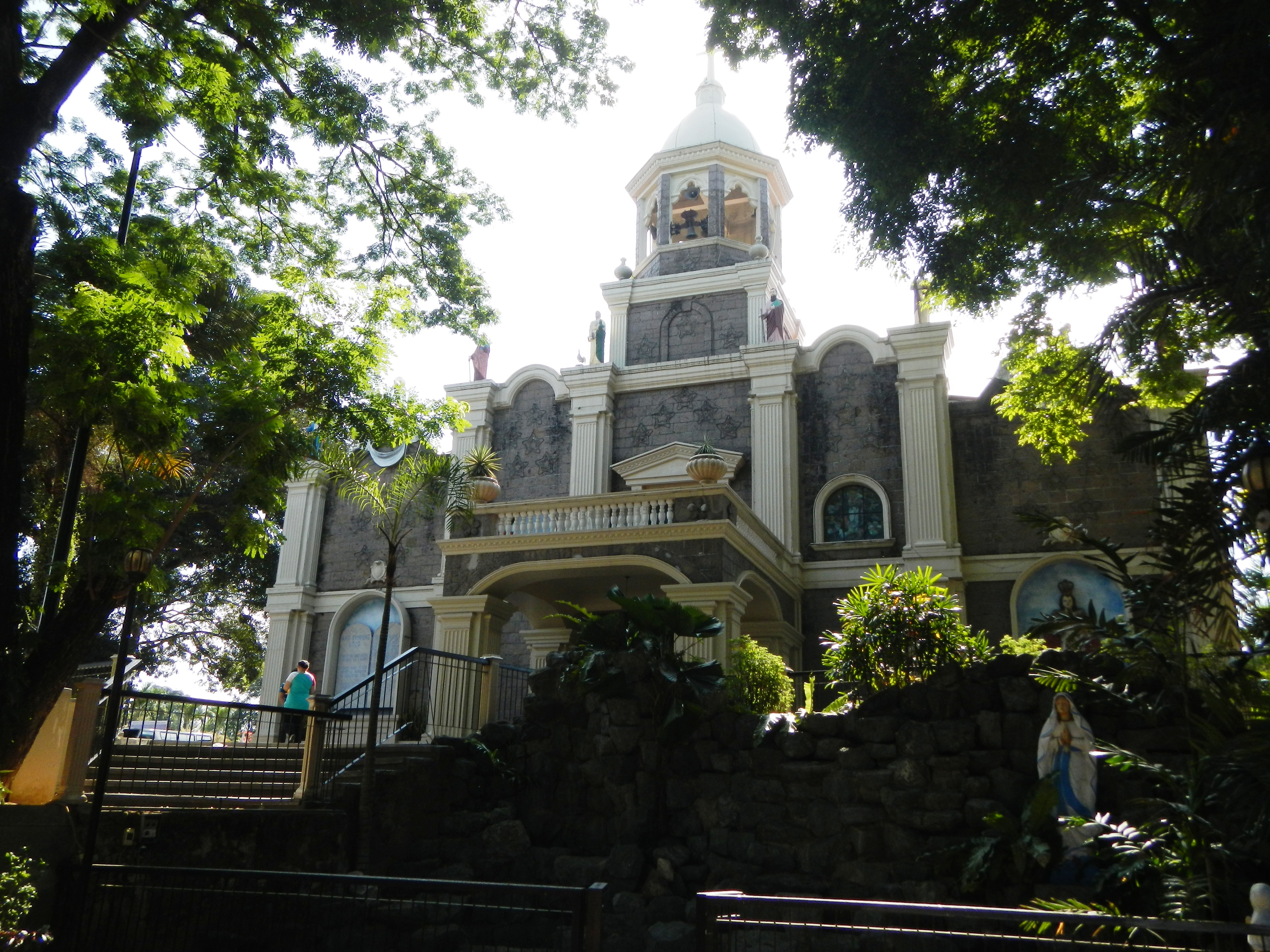 Santo Niño Parish Church in Bustos, Bulacan Complex, Compound, including the Rectory, Parish Office, Altar of Repose, beside the Barangay Poblacion Hall, Bustos, Bulacan.